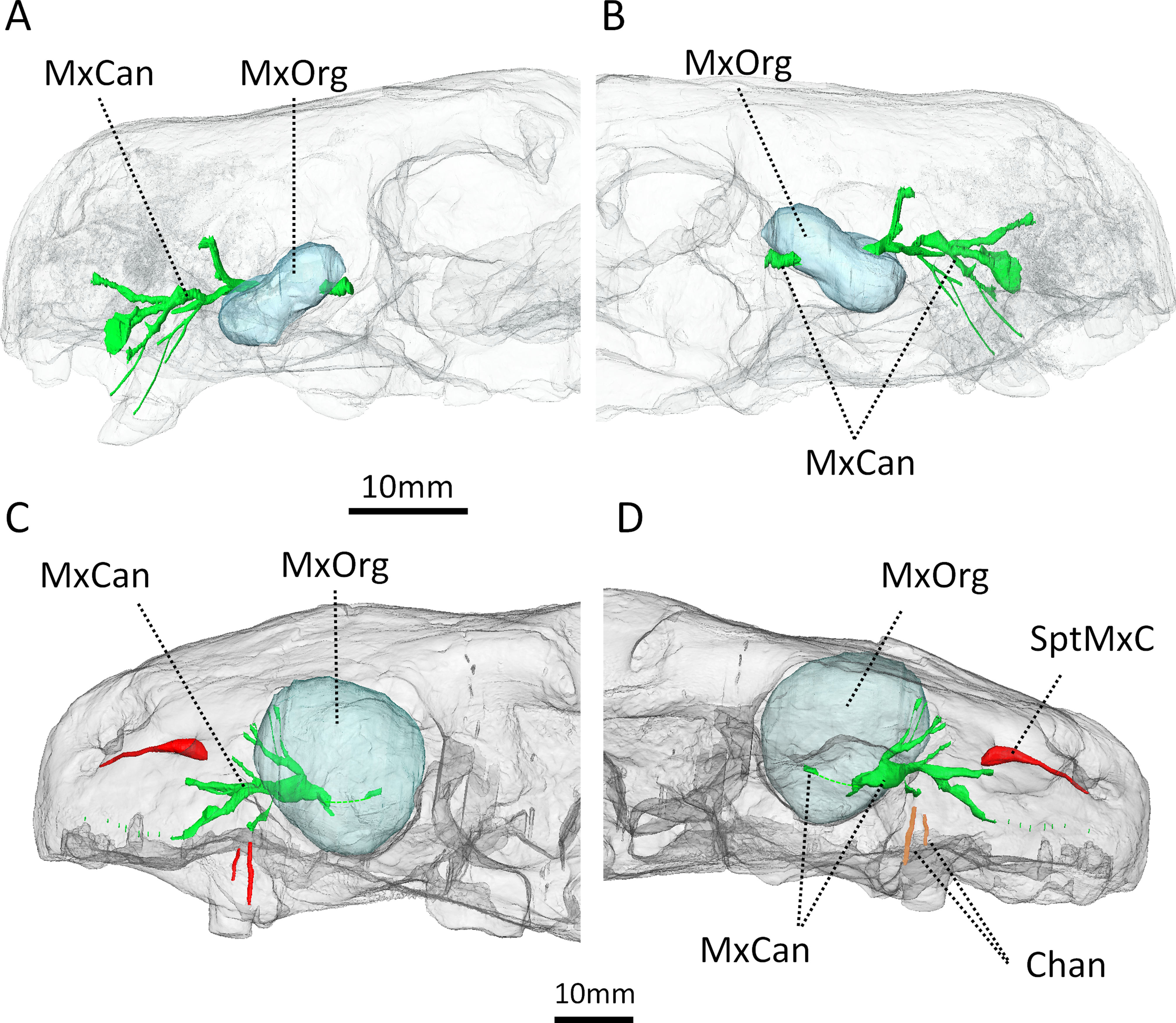 Fig 13. Three-dimensional rendering of the hypothetical organ that filled the maxillary fossa and its relationship with the maxillary canal (in green). A, B, BP/1/4009; C, D, NHMUK 5696 (mirrored for comparison). A, C, lateral view; B, D, medial view. Abbreviations: Chan, channels excavating the maxilla; MxCan, maxillary canal; MxOrg, maxillary organ; SptMxC, septomaxillary canal.